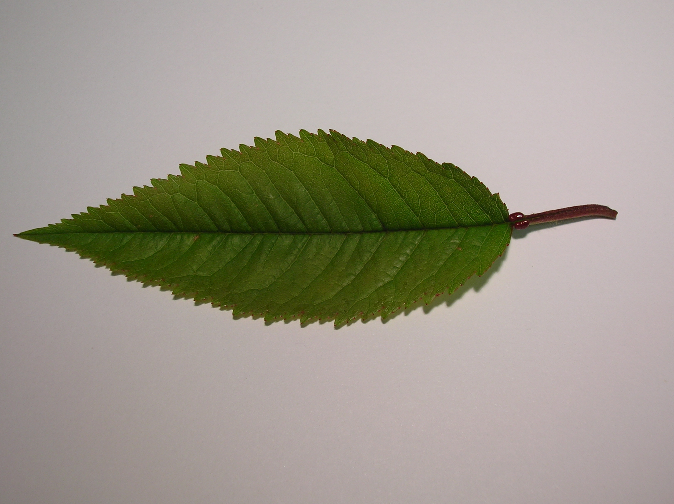 A young leaf from a Wild Cherry or Gean, Prunus avium. Leaf tip and petiole extrafloral nectaries visible.